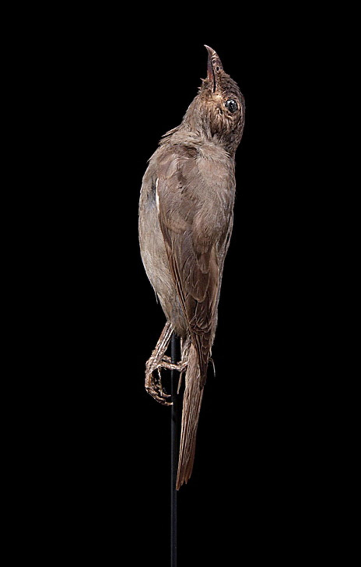 Aplonis fusca Gould, 1836